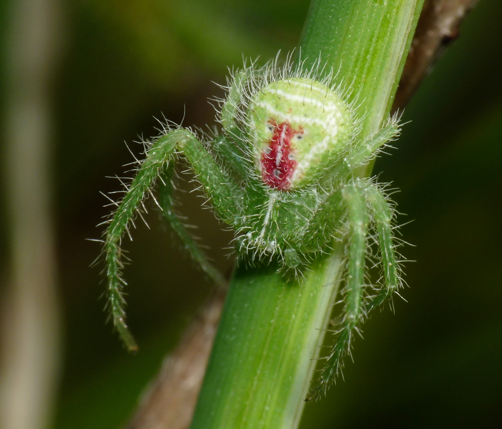 Heriaeus sp., near Livorno, Tuscany, Italy